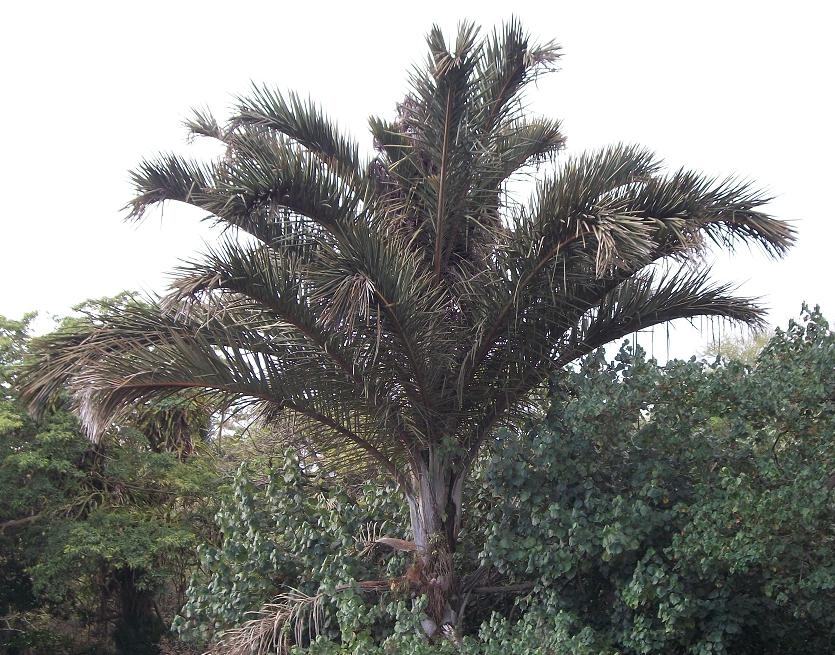 Raphia australis at Umdoni Bird Sanctuary, Amanzimtoti, South Africa